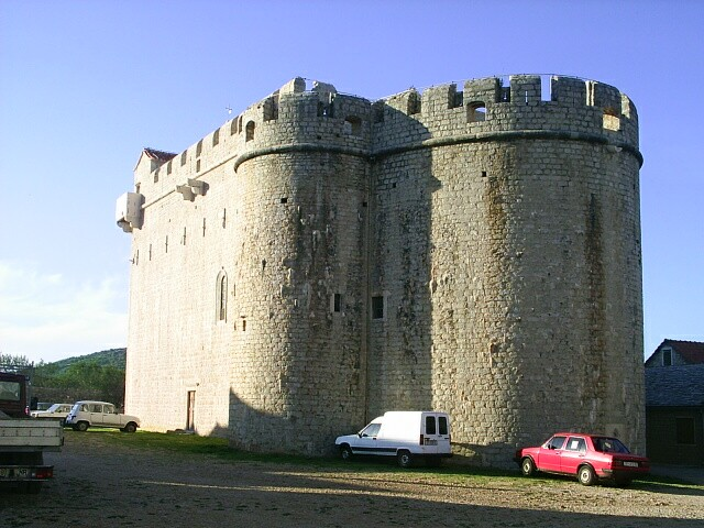 Vrboska Village on the Hvar Island, Croatia